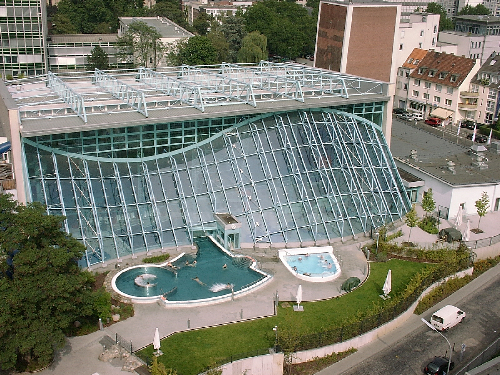 Public "Agrippa" swimming pool in Cologne, Germany